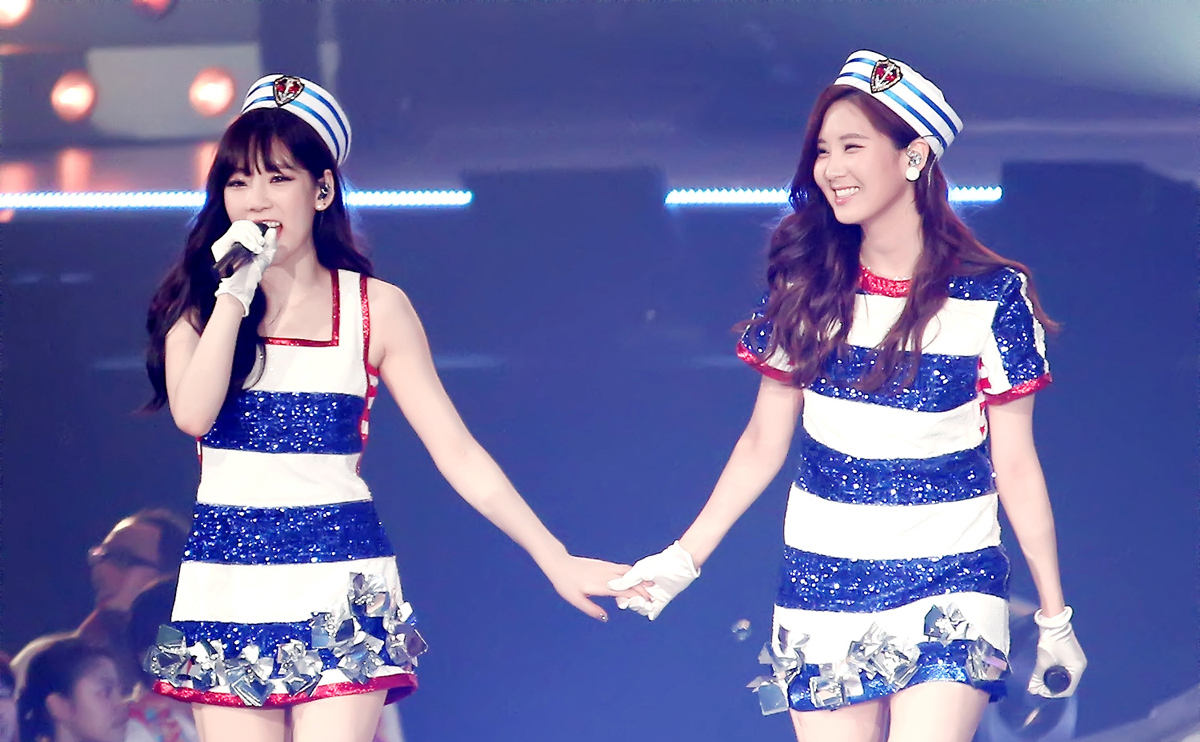 Girls' Generation in Nagoya during their "Japan 3rd tour" on June 6, 2014.